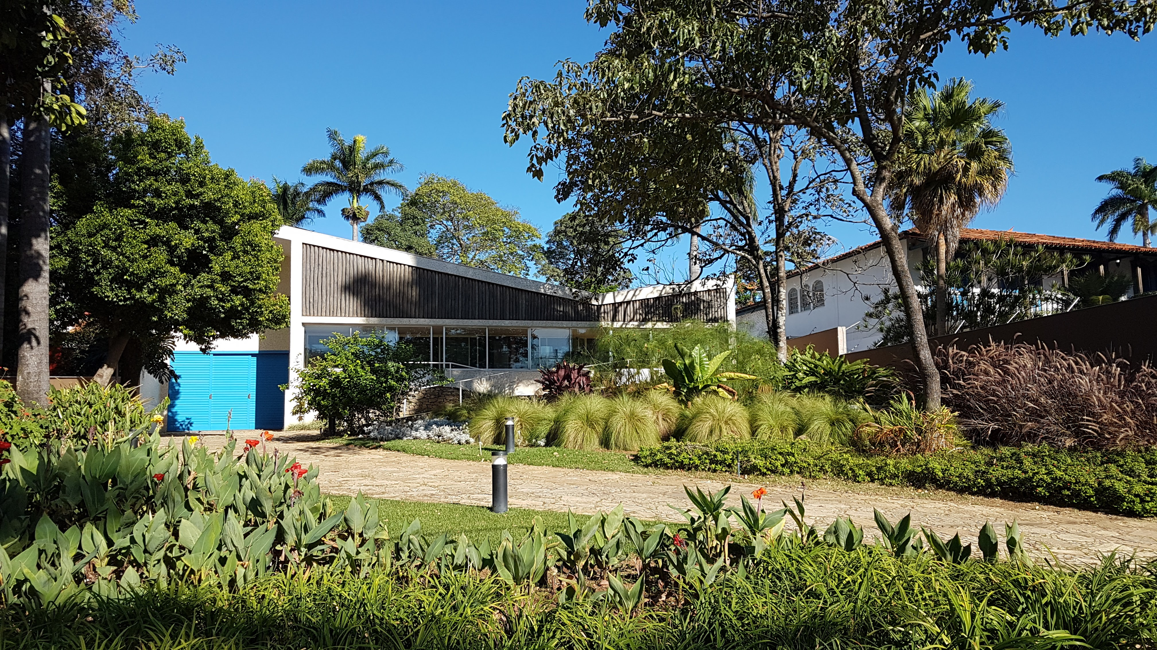 Frontal view of the garden of Casa Kubitschek